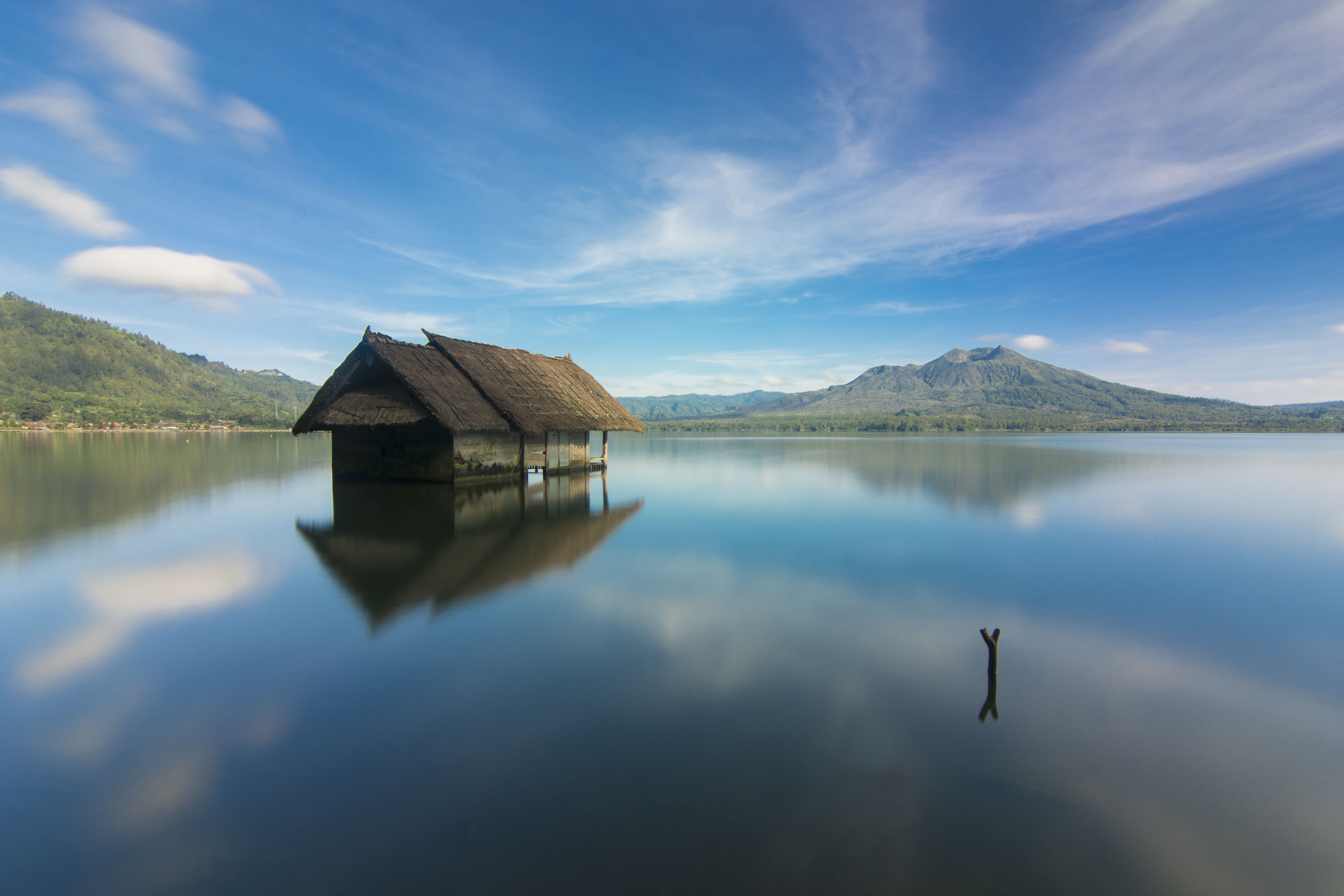 A hut located in the middle of Lake Batur, Kintamani, Bali